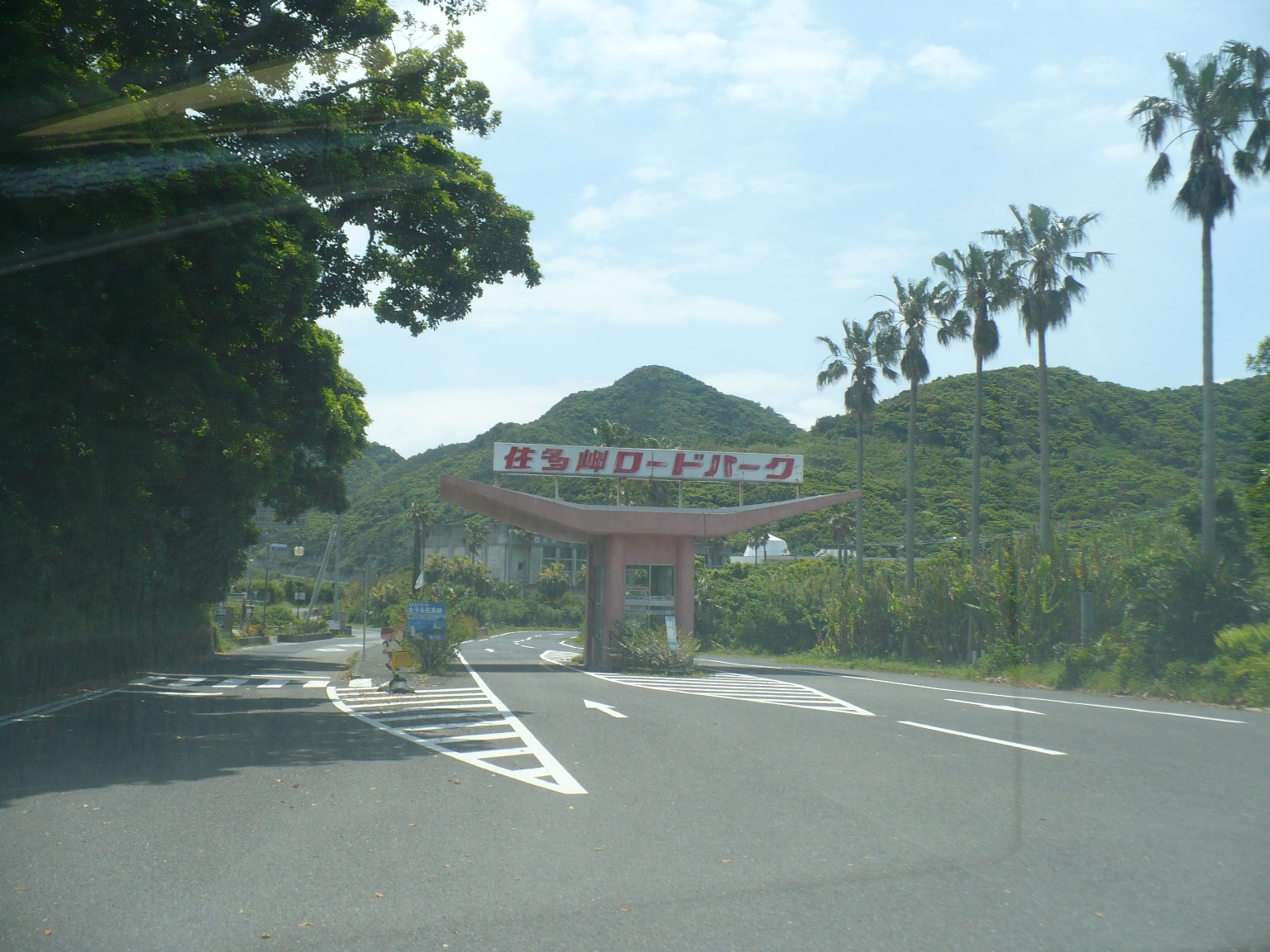 The first tollgate of Cape Sata Roadpark, Minami-Osumi town Kagoshima prefecture Japan. The road was tollroad but is now free, and the tollgate was abondoned.